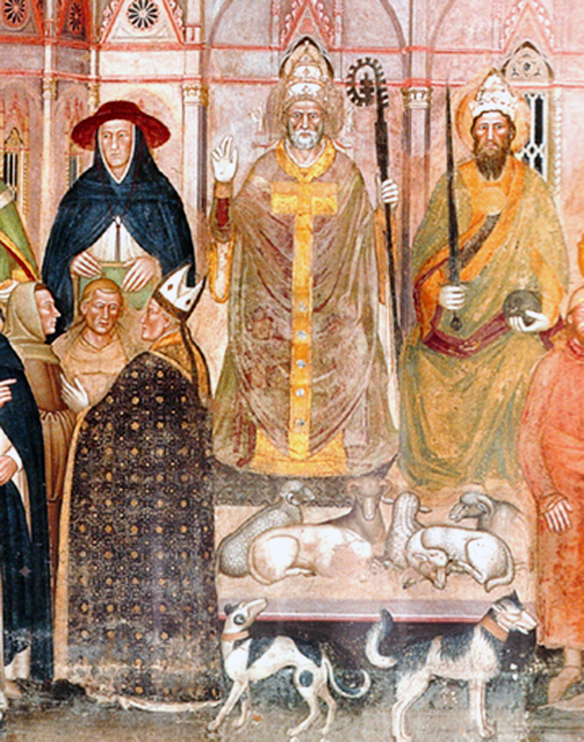 Scene with the faithful on the left, a group of about five dozen figures representing Christendom, and illustrating the religious and secular hierarchies. At the center are pope and emperor. The secular figures range from the emperor down to beggars and cripples. Behind them is the great Florentine Duomo, representing the Church.